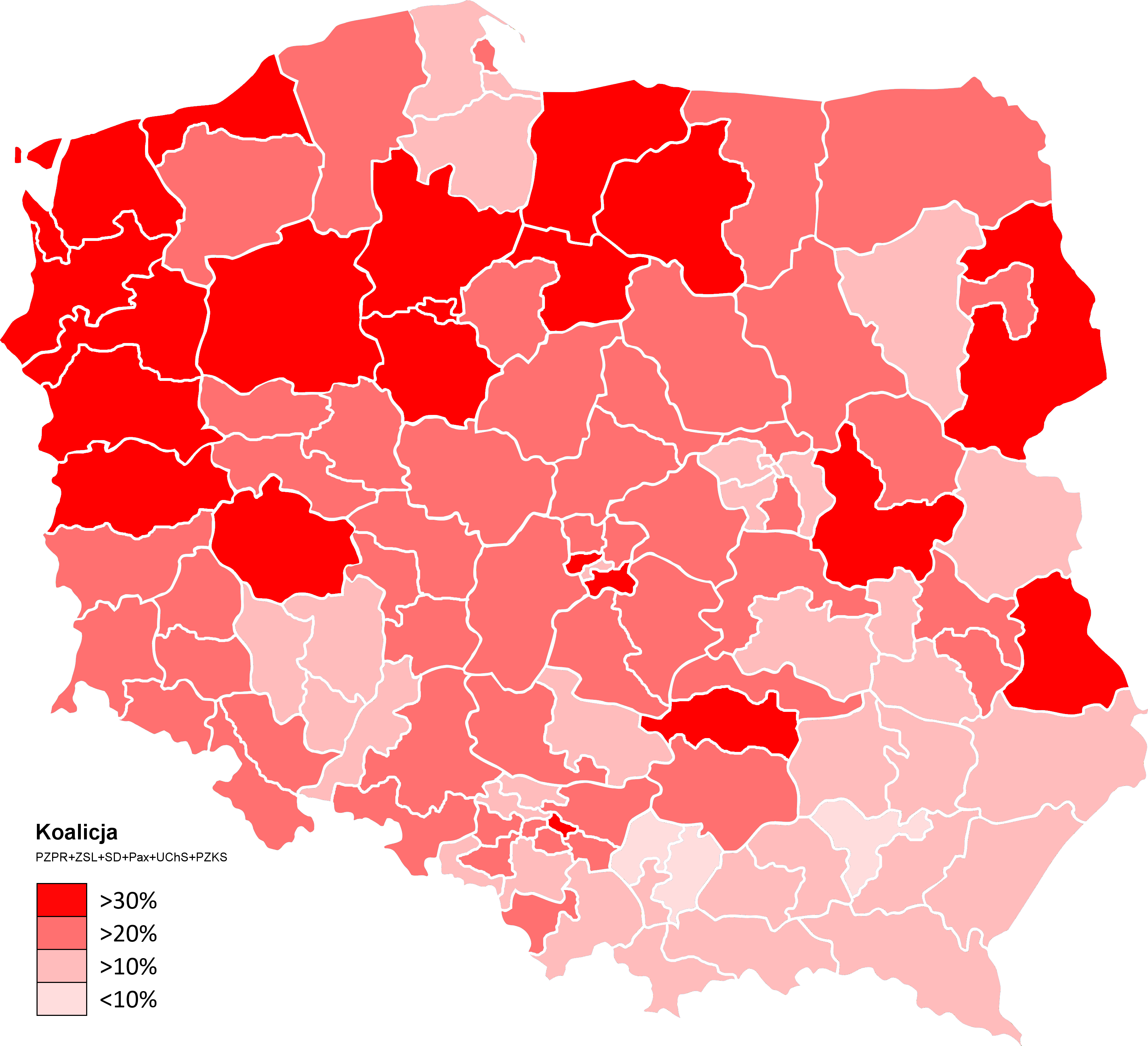 Results of 1989 Polish legislative elections - votes on government coallition (PZPR+ZSL+SD+Catholic associations) by constituency